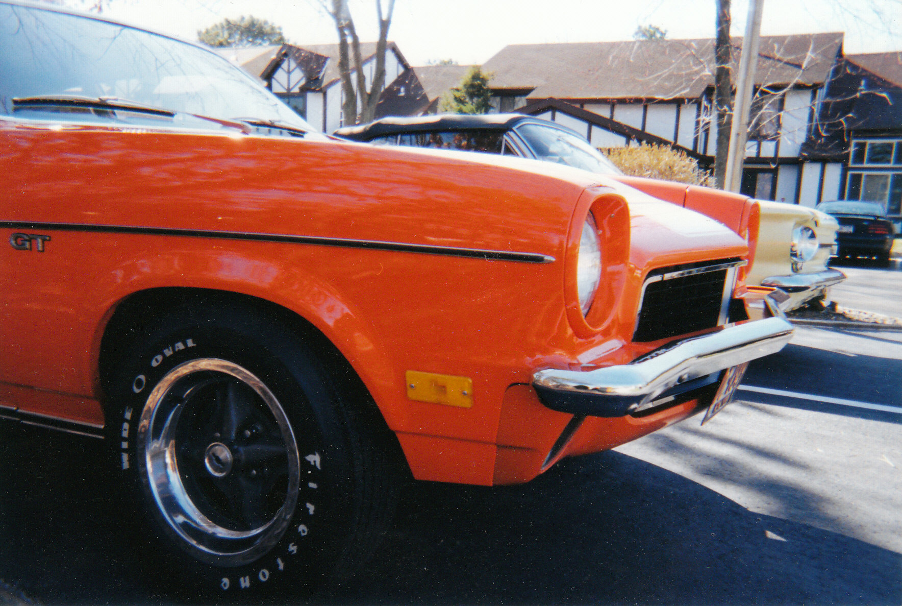 1973 Chevrolet Vega GT - 5 MPH front bumper